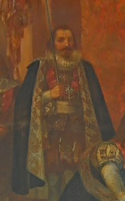 The Marquis of Ferreira acting as Constable of the Kingdom (Condestável do Reino) during the Acclamation of King John IV of Portugal in 1640. Detail from an 1823 wall mural by José da Cunha Taborda, National Palace of Ajuda, Lisbon, Portugal.